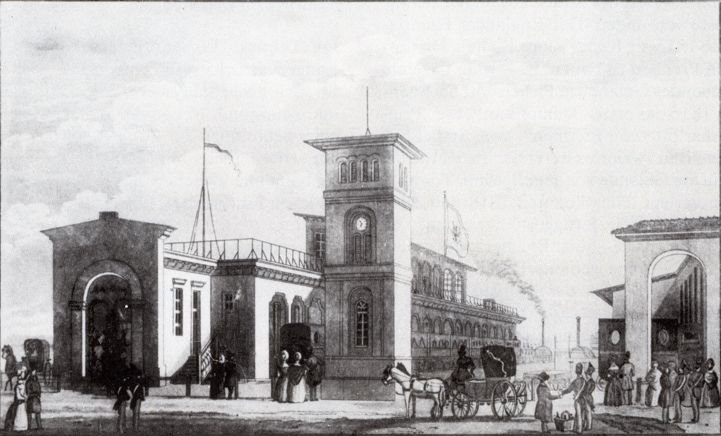 the railway station of Potsdam, now Potsdam Hauptbahnhof, in its first stage; the lemma is the original title of the print